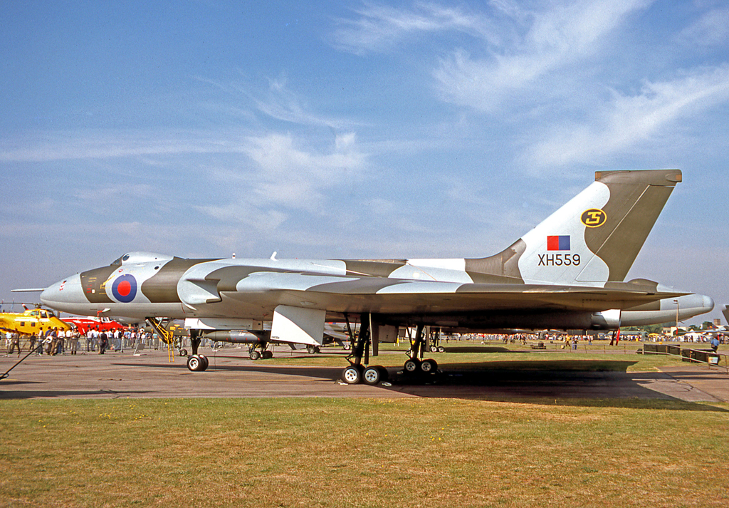 Avro Vulcan B.2 XH559 wearing the 35 Squadron badge on its fin at the 1977 Royal Review at RAF Finningley